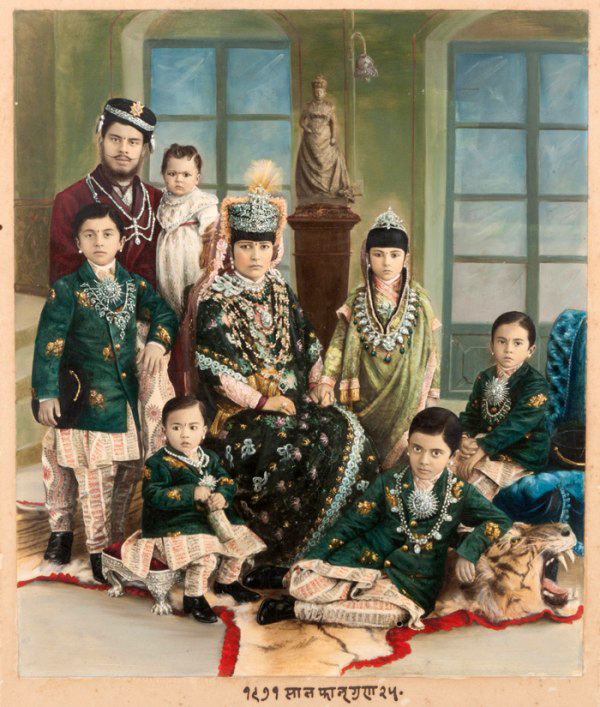 Rana Family on Bikram Sambat 1971 Falgun 25 as written on the photo itself; 1915 May